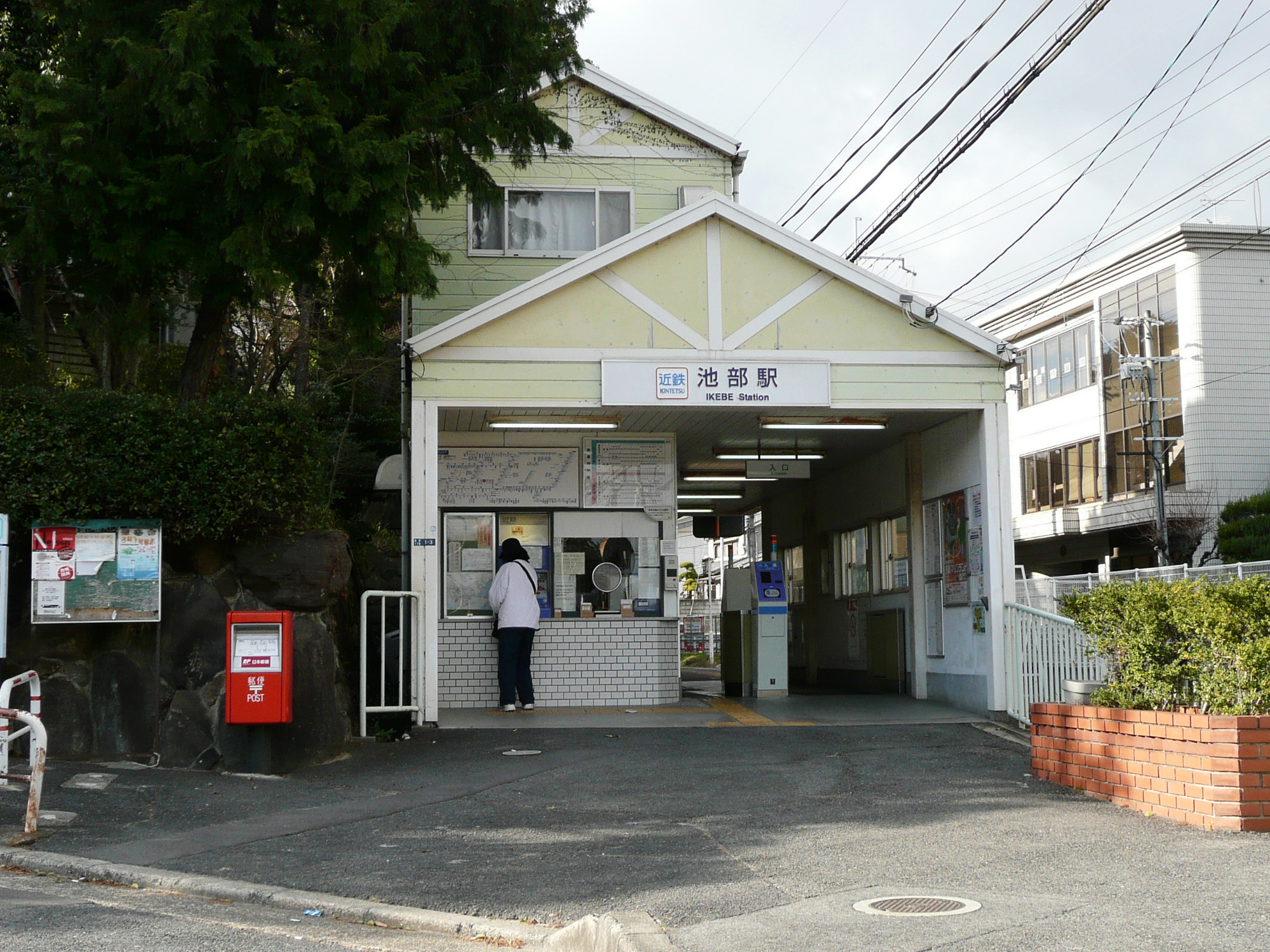 Kinki Nippon Railway,Tawaramoto Line,Ikebe Station. /近鉄田原本線（たわらもとせん）池部駅